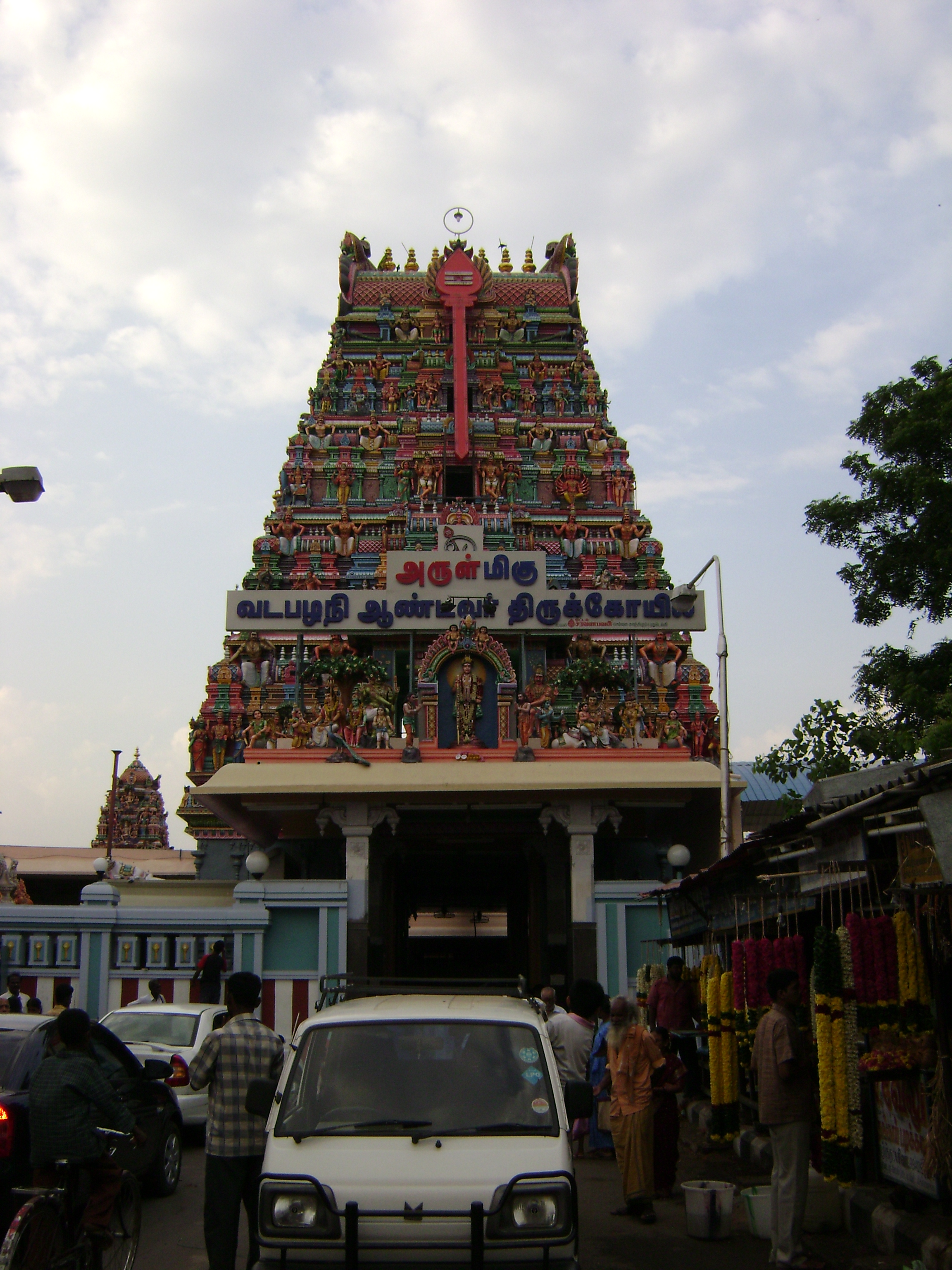 Vadapalani Temple